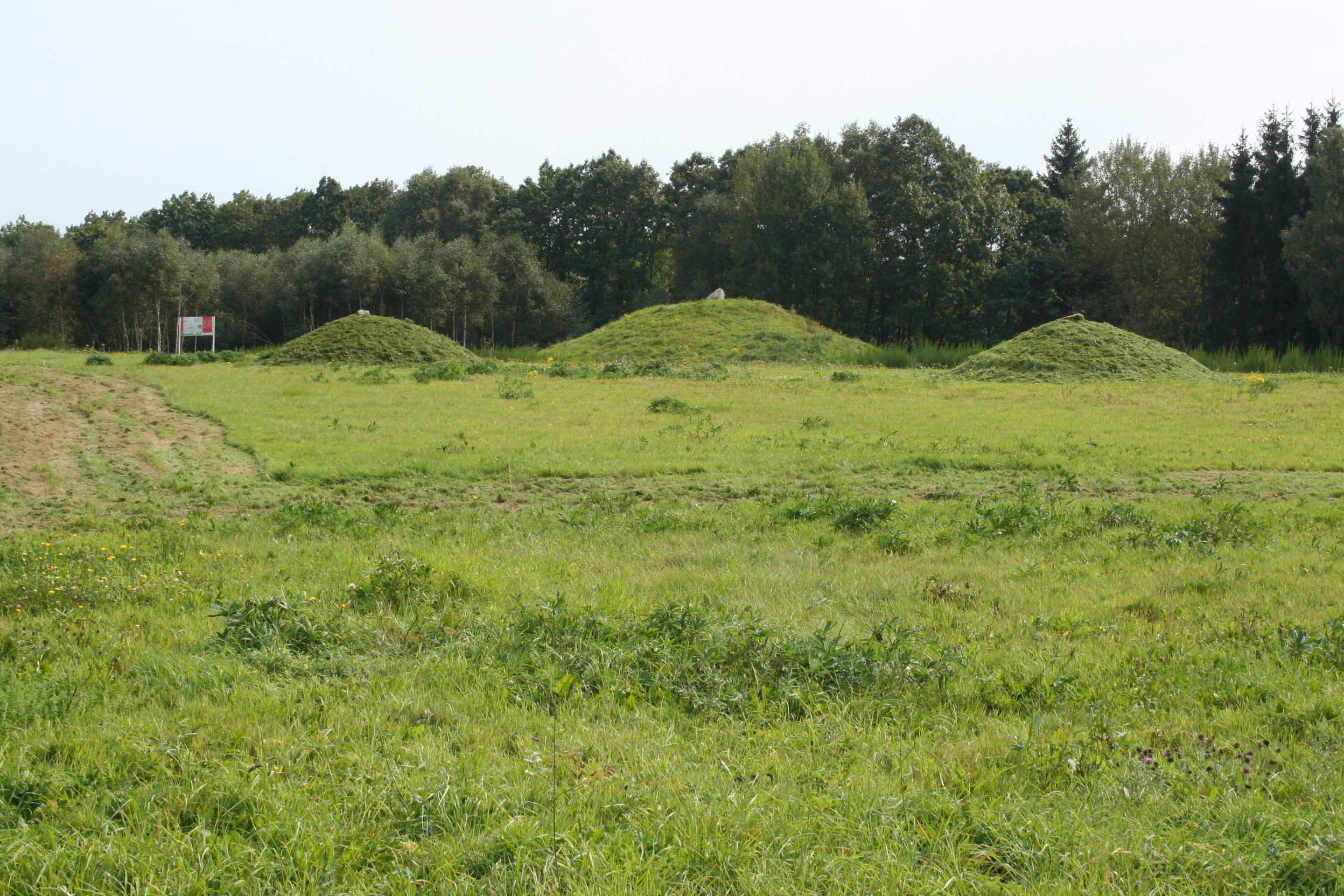 Graveyard at Belginum archeological site, Wederath